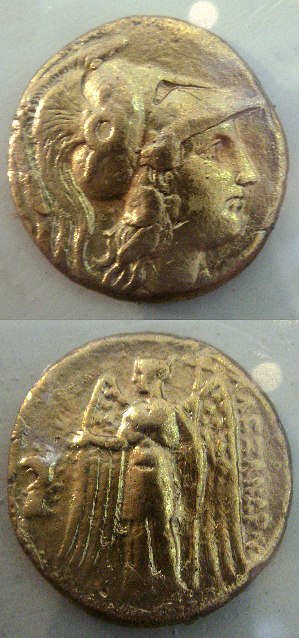 Rhetii_coinage_5th_1st_century_BCE